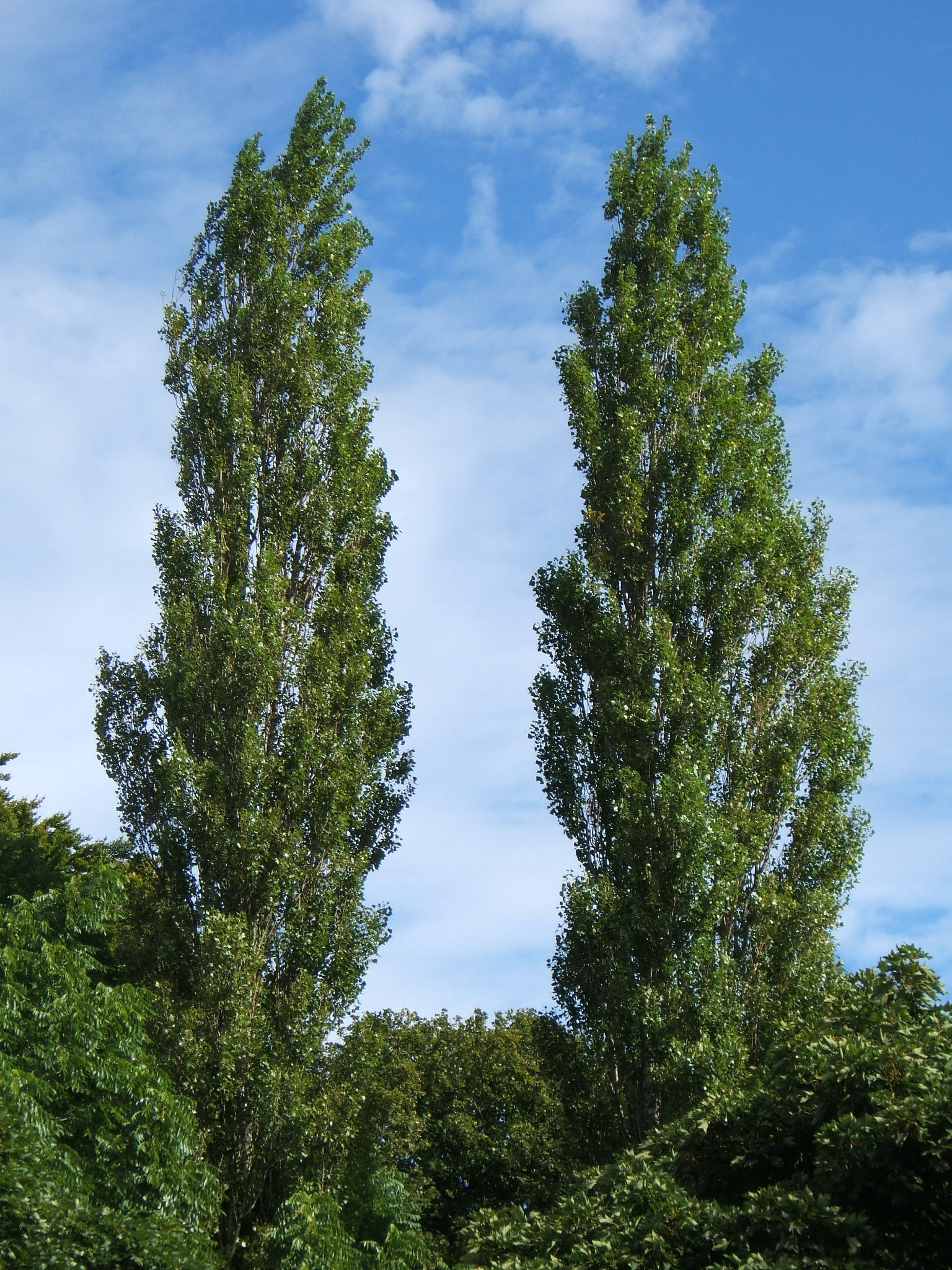 Populus nigra 'Plantierensis' - broad crown with dense foliage. Northumberland, UK.